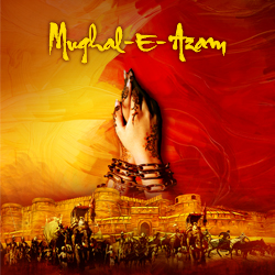 Mughal-e-Azam Poster